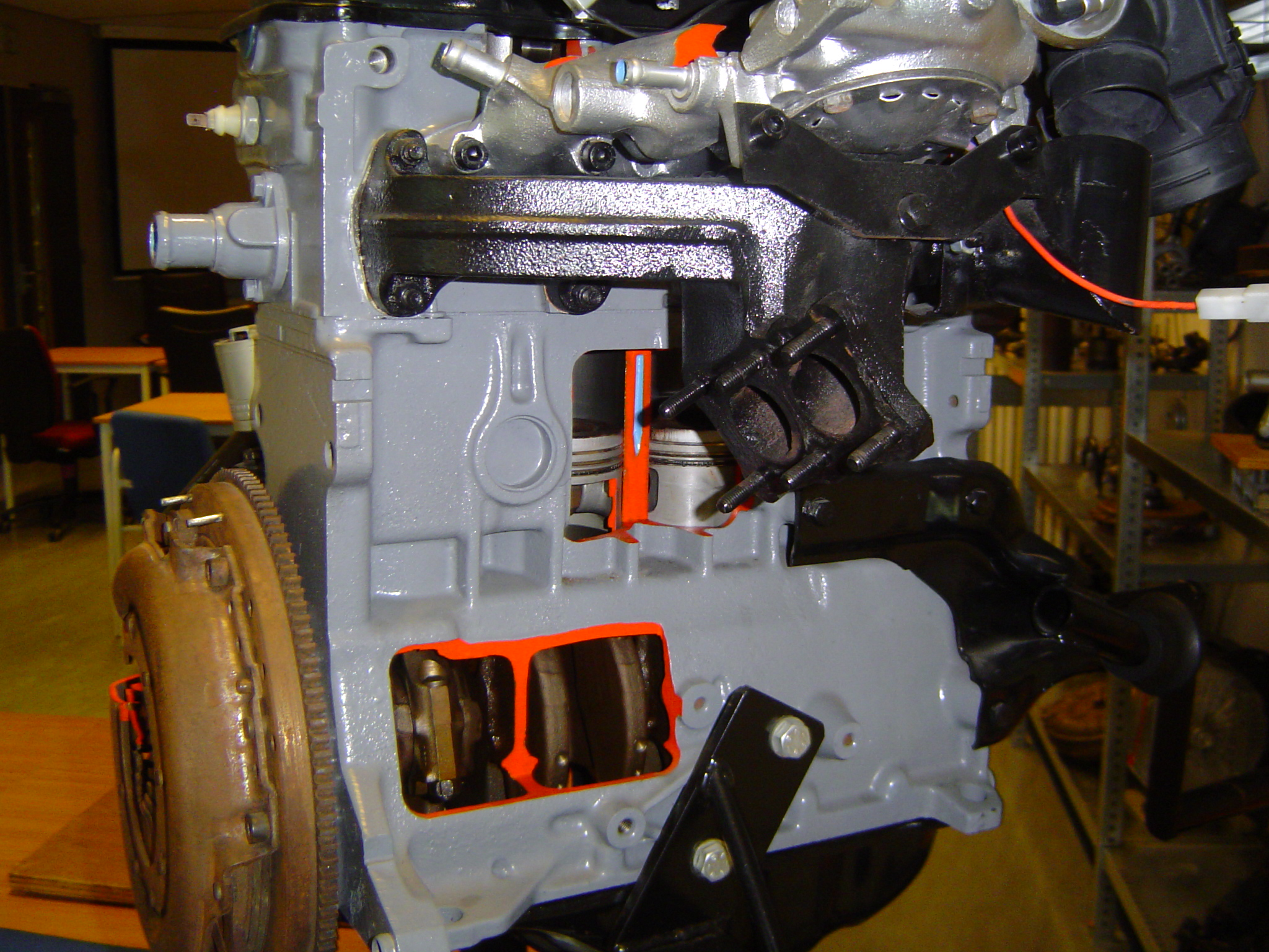 Cut-away old four-cylinder four-stroke engine. Part of the crankshaft is visible in the lower opening, and the two middle pistons in the upper. A flywheel can be seen on the left, and the inlet and exhaust manifolds at the top.